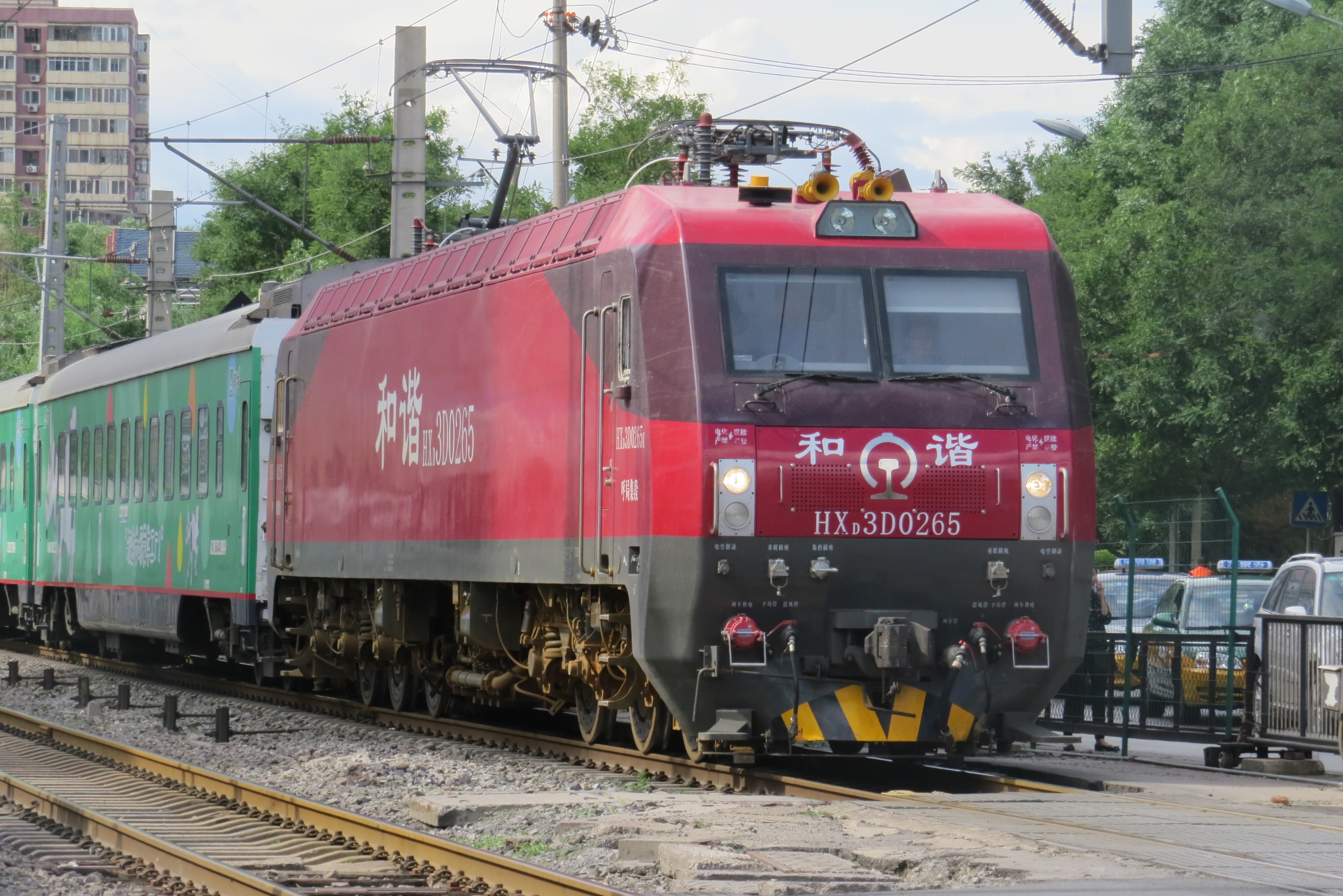 Z315 to Hohhot. Yes, this train changed its advert again!